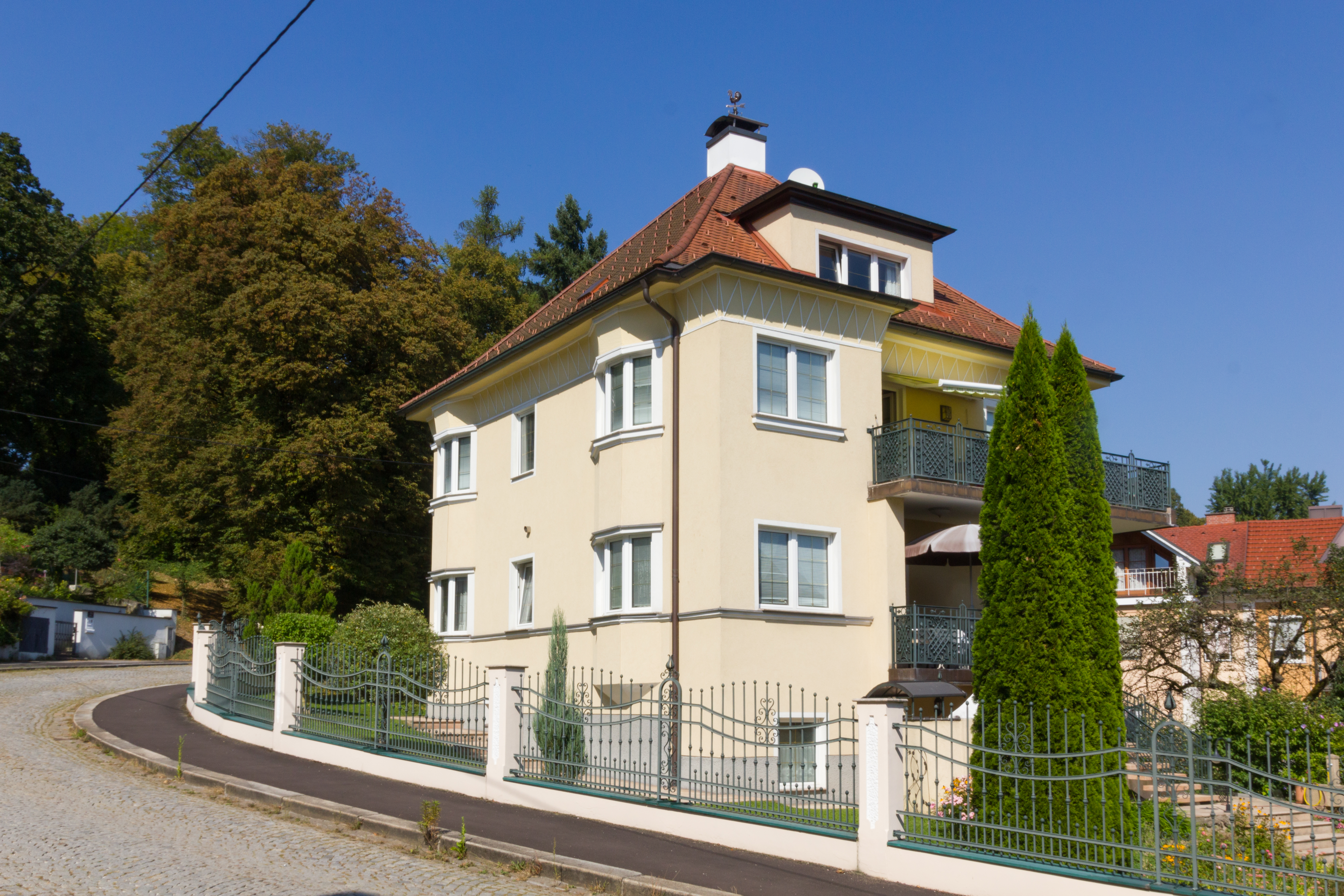 Vergeinerstraße 3, Linz